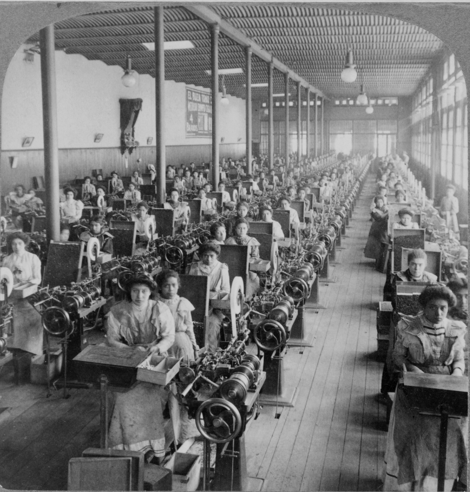 Making cigarettes in the great factory "El Buen Tono," Mexico City, Mexico